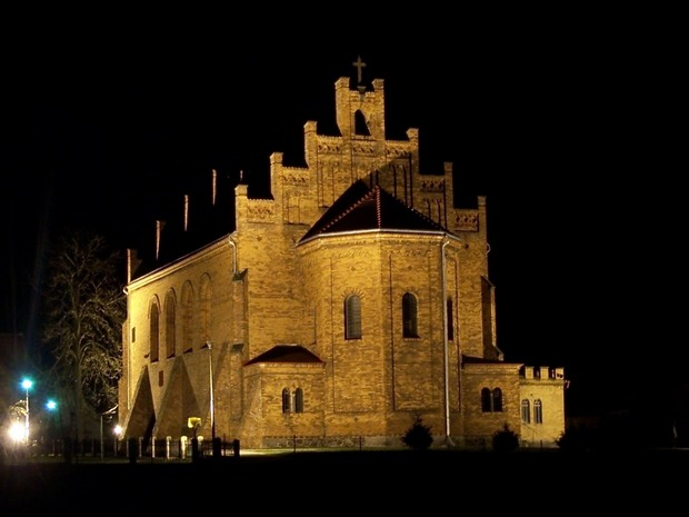 Church of Saint John the Baptist i n Prochowice in Poland.